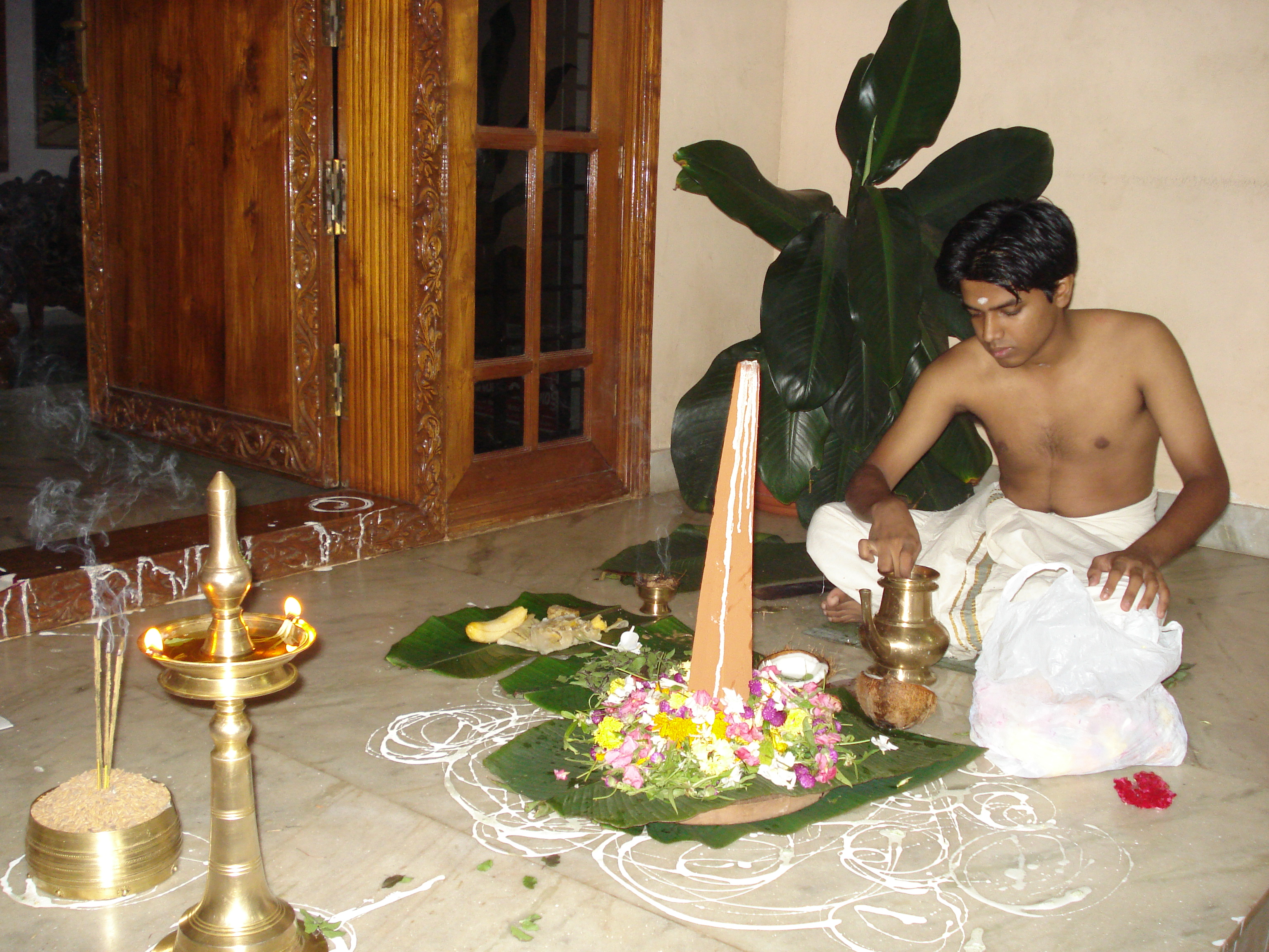 On the day of Onam